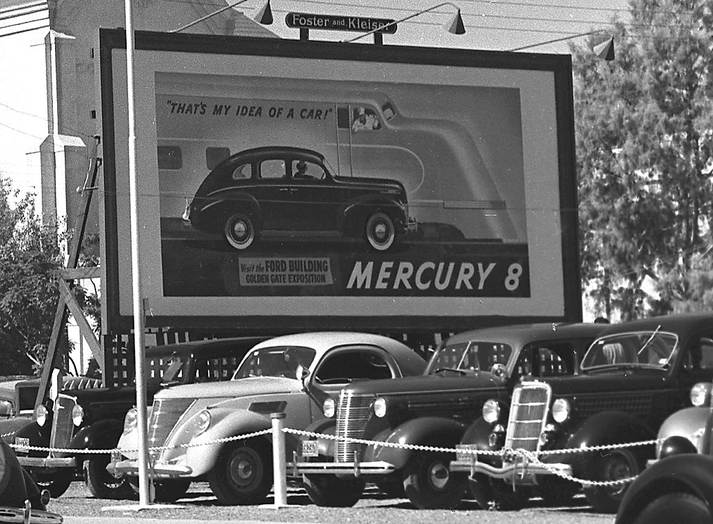 Phoenix, Arizona, 1939. Car dealer. Billboard for Mercury brand vehicles. Guess identification of cars seen on lot (left to right) 1933-34 Chevy, 1937 Lincoln Zephyr, 1936 Olds?, 1935 Ford. Not a 1936 Olds but a 1938 Chevrolet Master De Luxe.